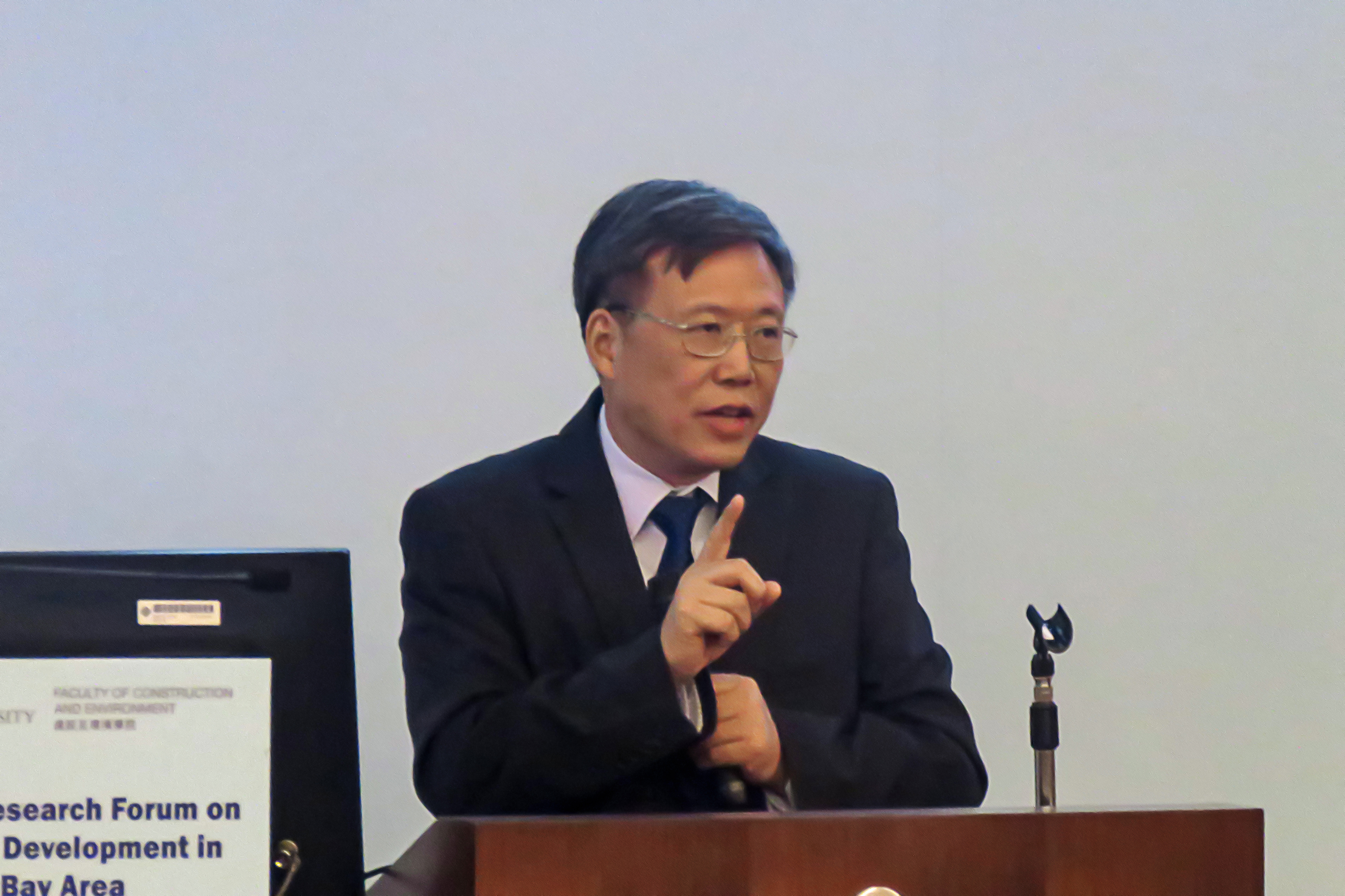 Seen delivering a speech on “Role of Fiber-Reinforced Polymer (FRP) Composites in the Development of Sustainable Coastal and Marine Infrastructure”. This "President Designate" received the most flashlights today!